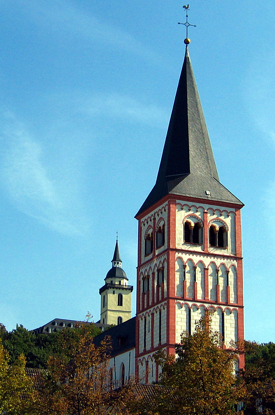 Servatius church and Michaelsberg Abbey in Siegburg, Germany